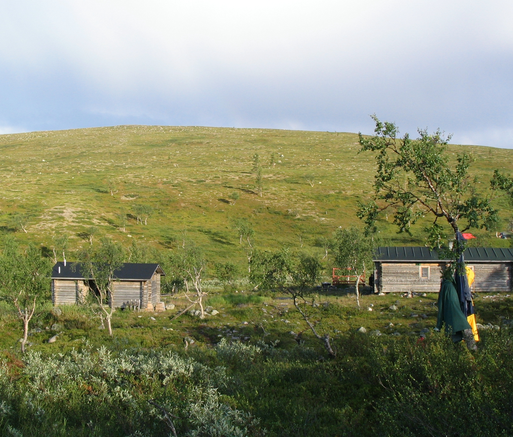 Sioskuru Wilderness Huts on the Hetta–Pallas Hiking Trail in Pallas-Yllästunturi National Park, Enontekiö, Finland